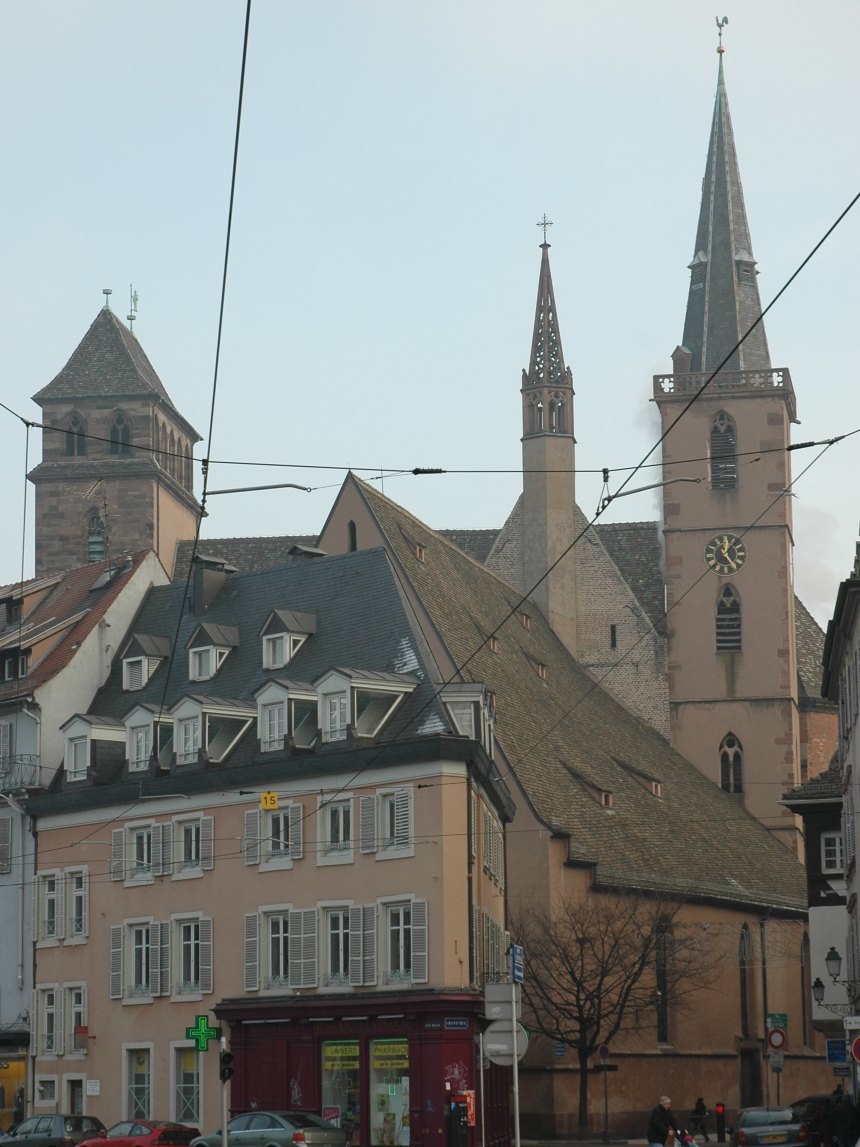 Saint-Pierre-le-Vieux's Church, Strasbourg (France)